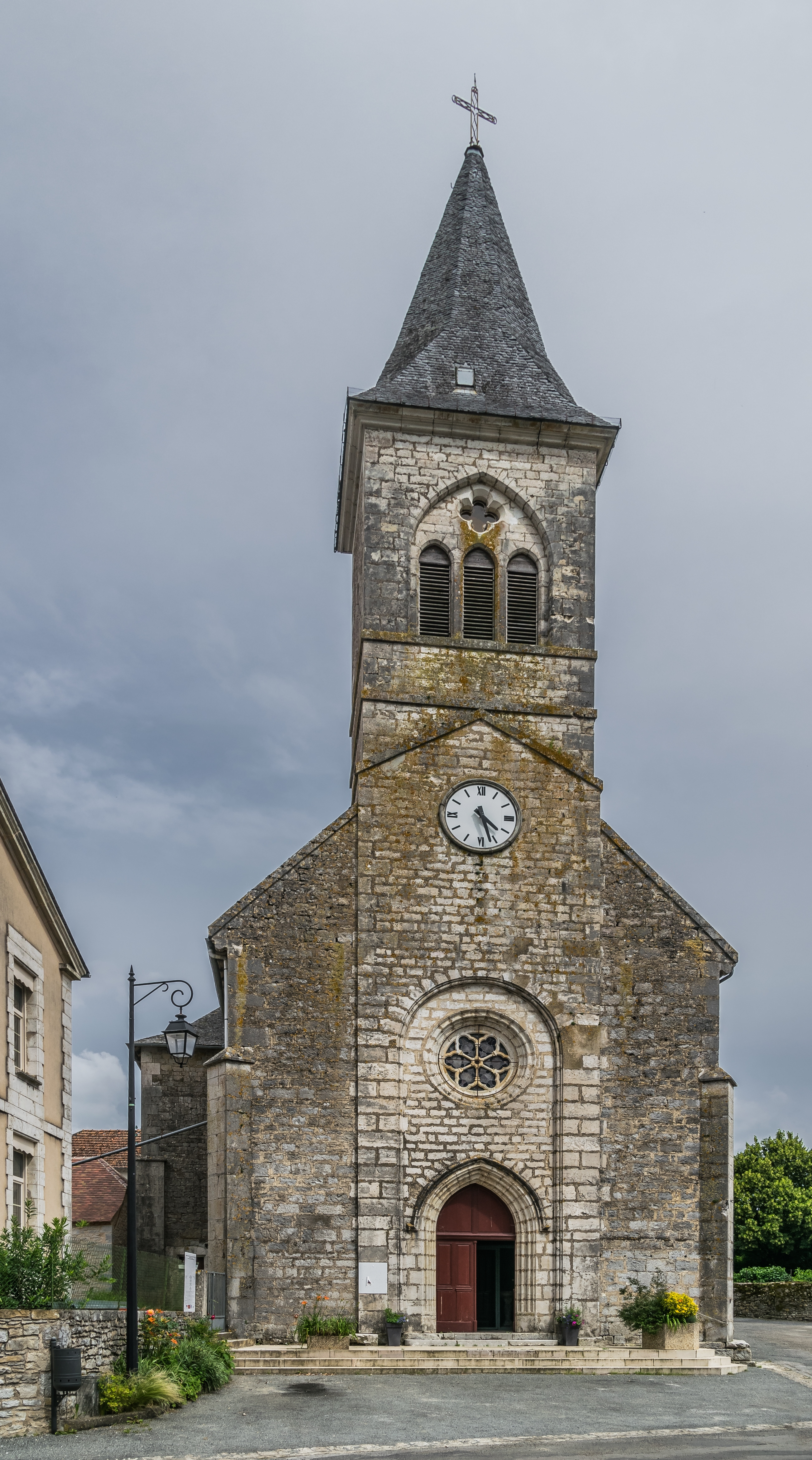 Saint Martin Church in Mayrinhac-Lentour, Lot, France